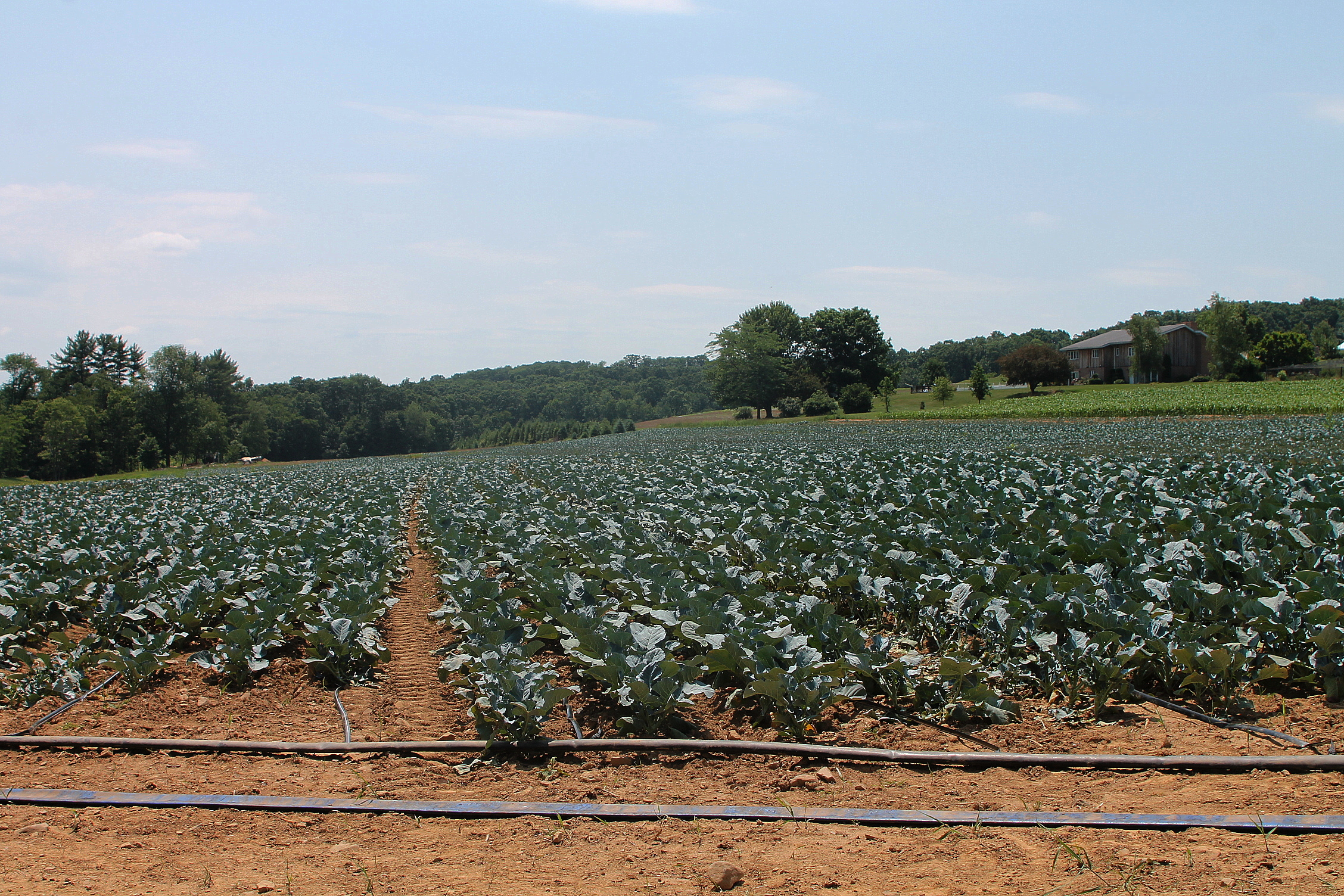 Collard green field in North Centre Township, Columbia County, Pennsylvania